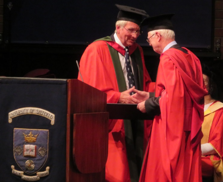 Ian Cooke receiving an Honorary Doctorate of Medicine